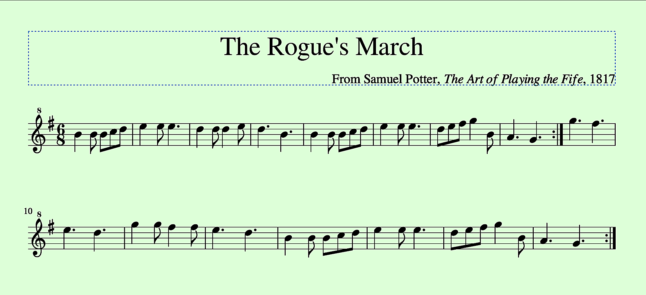 Musical score